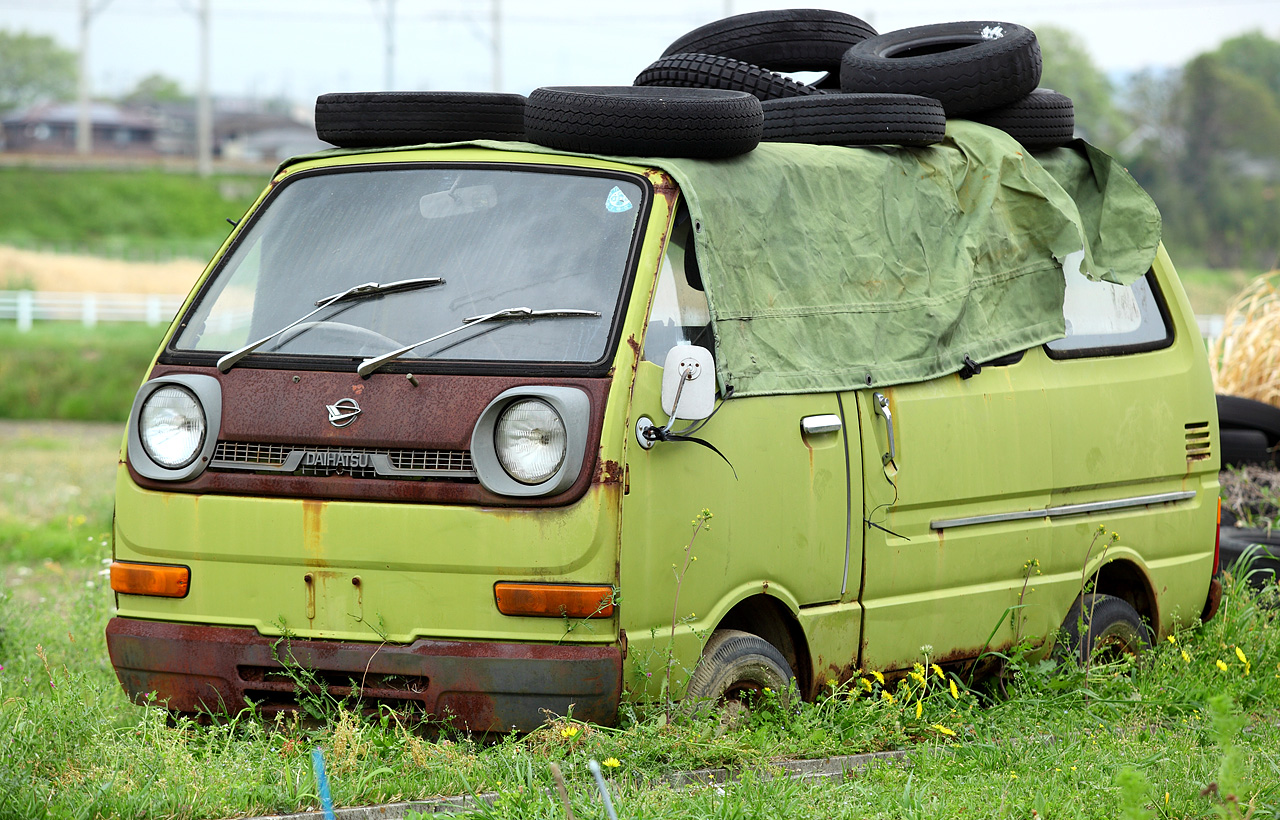 Daihatsu Hijet Van 360 ( 4th generation )